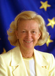 Official portrait of Nicole Fontaine